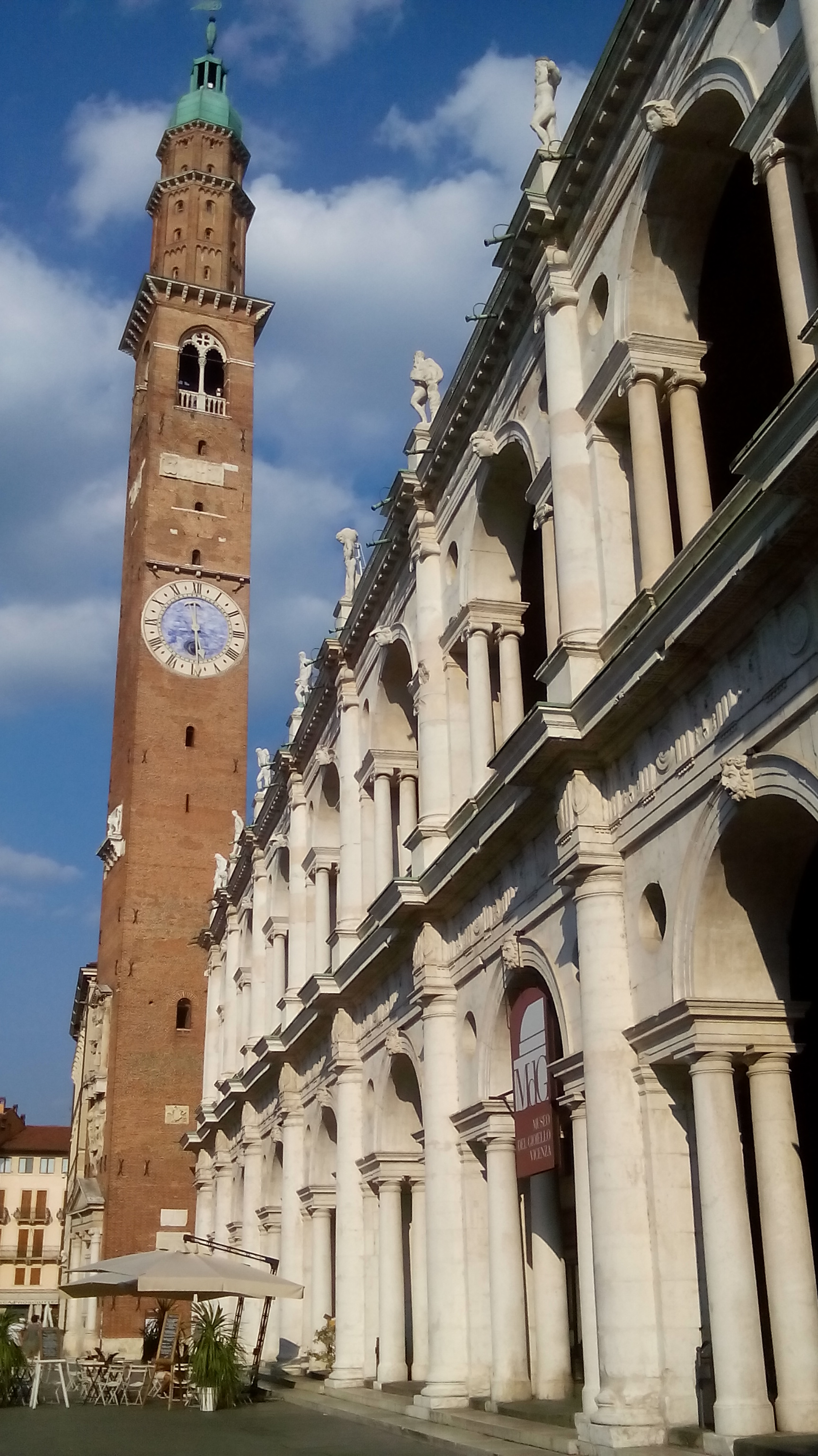 Angle of vision Basilica Palladiana is Torre Bissara. Vicenza. This is a photo of a monument which is part of cultural heritage of Italy.